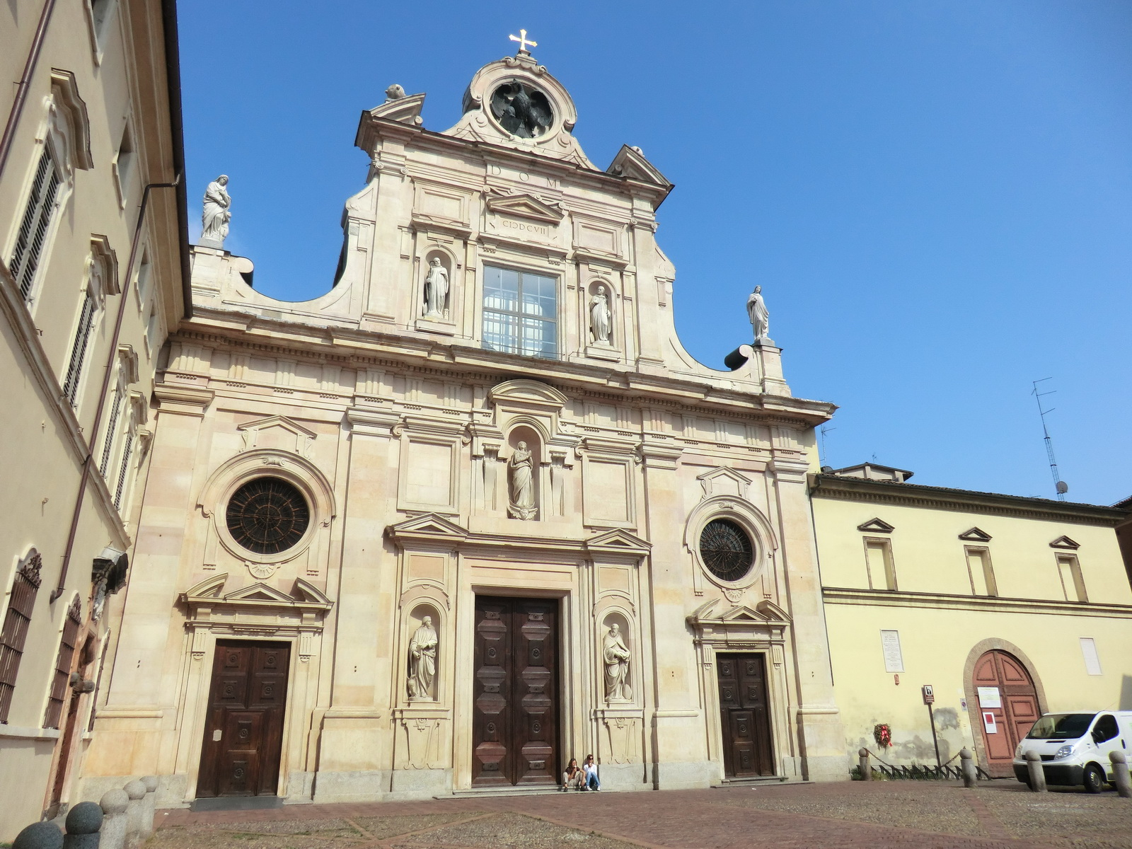 San Giovanni Evangelista Native nameAbbazia di San Giovanni EvangelistaLocationParmaCoordinates44° 48′ 10″ N, 10° 19′ 57″ E Established1510Authority control : Q3603222 VIAF: 125586873 ISNI: 0000 0001 2152 0732 institution QS:P195,Q3603222